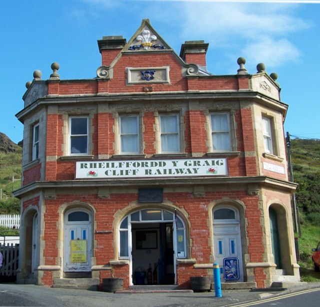 Aberystwyth Cliff Railway Aberystwyth Cliff Railway - in Welsh, "Rheilffordd y Graig".